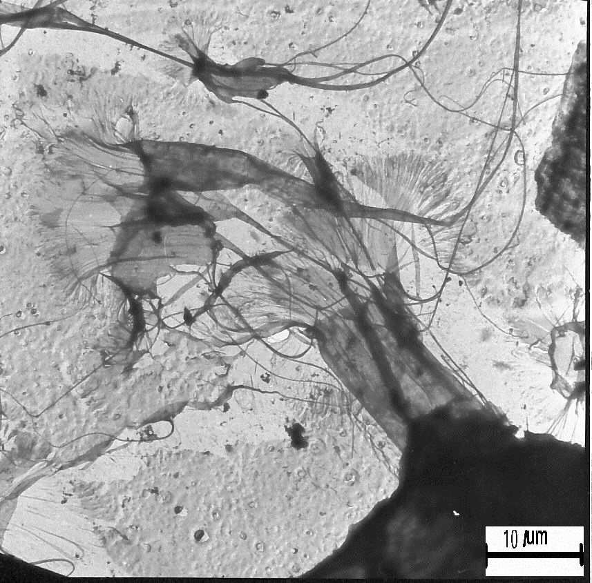 Detail of a fracture surface from bulk PE-HD broken at room temperature, C replica made with metallic protection cover, TEM photograph